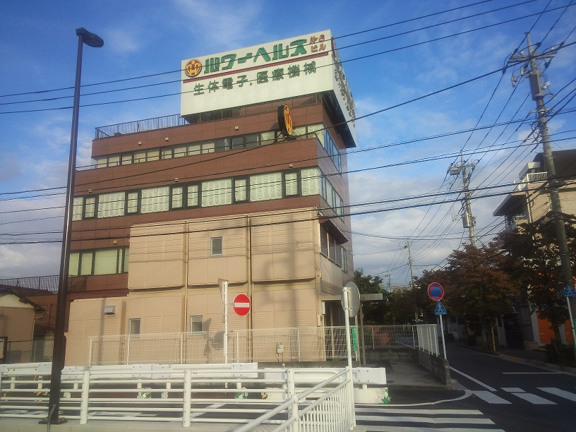 Health Inc, 2013